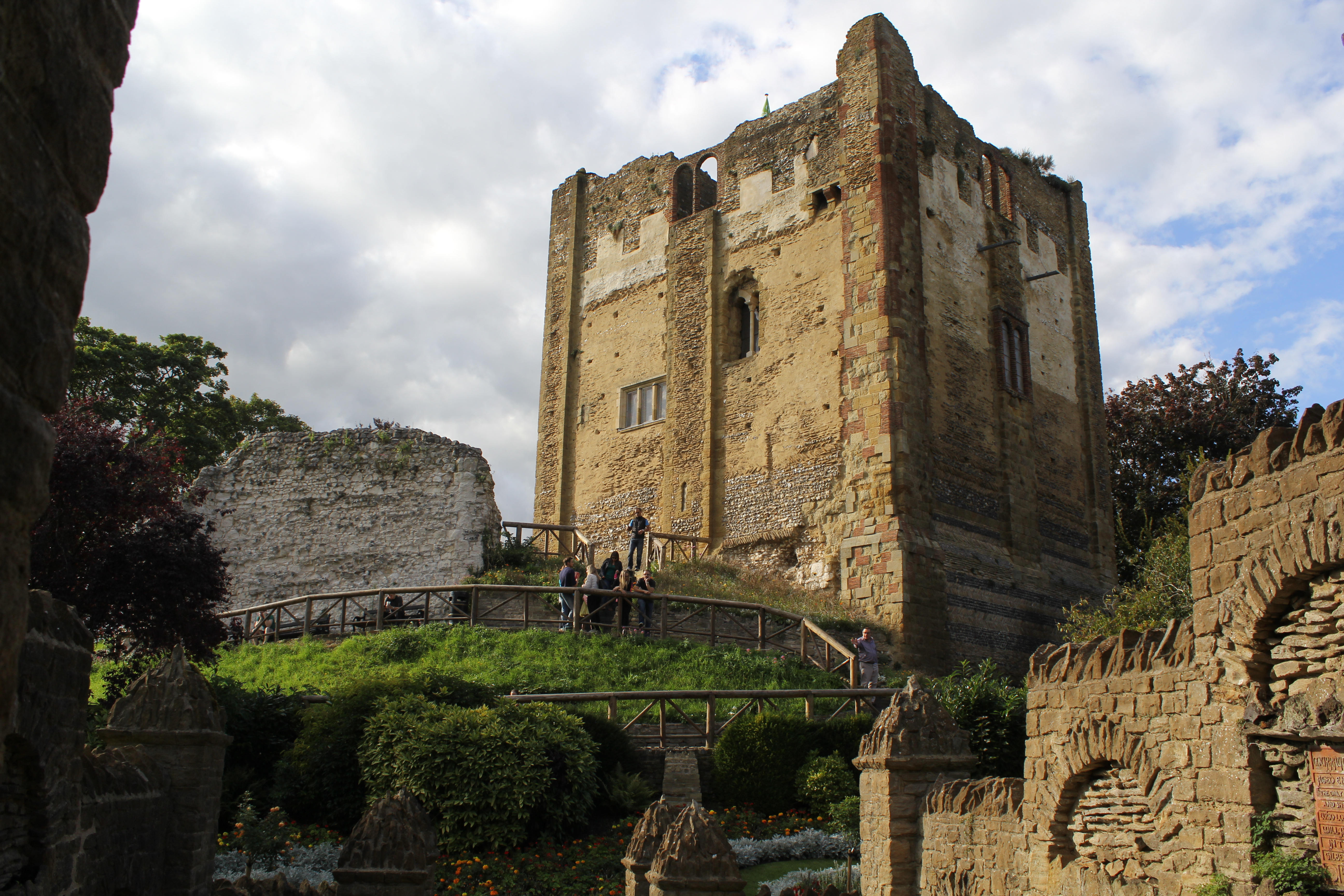 Guildford Castle, 2015 (32) This file was generated using WMUK's equipment.